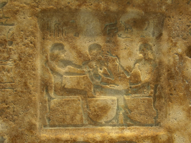 Panel in the false door of Senemut, showing Senemut in the middle and his mother Hatnefer (in front of him) and his father Ramose (behind him)